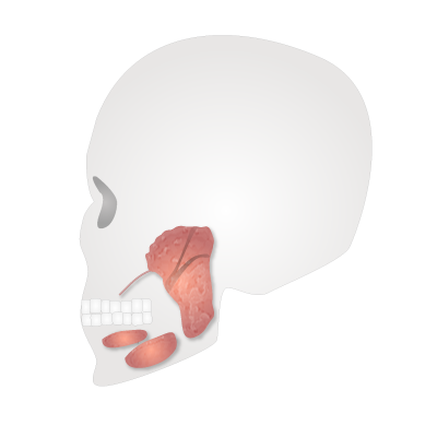 salivary gland